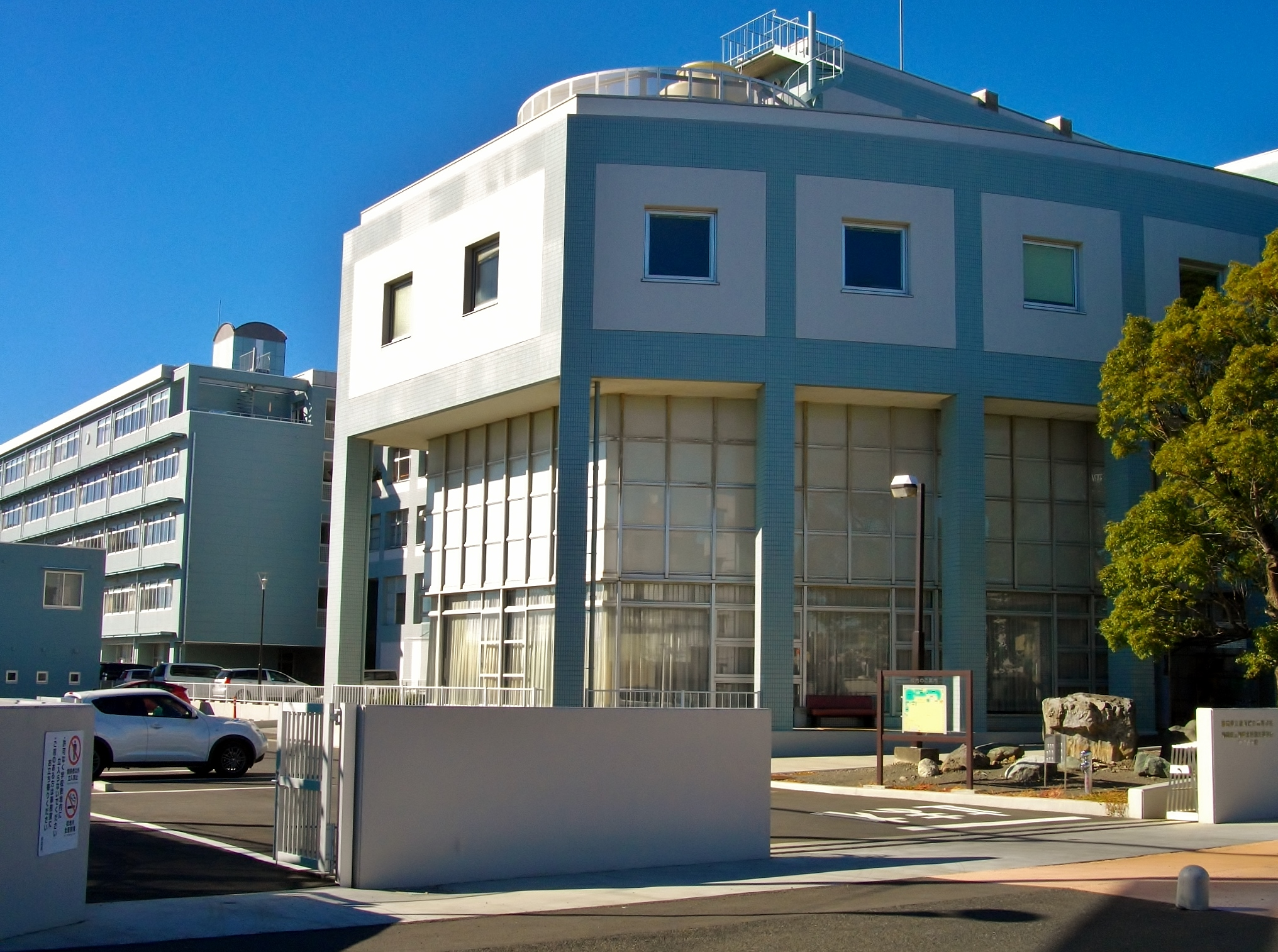 Suruga-Sogo High School